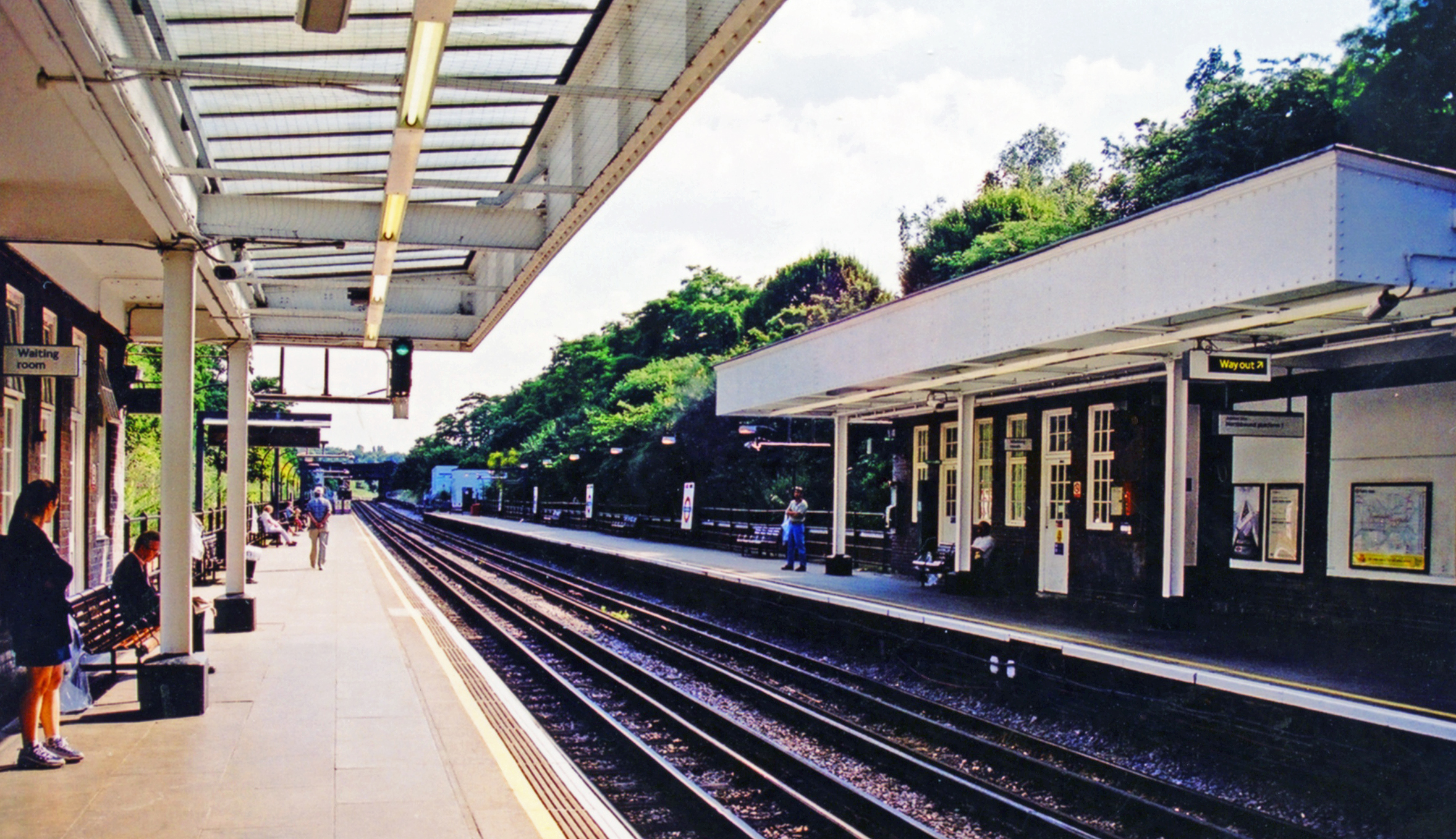 Kingsbury station, London Underground 2000View southward, towards Wembley Park and London, London Underground Jubilee Line: built 12/32 on the Metropolitan Wembley Park - Stanmore, served from 29/11/39 as a Bakerloo Line branch until 1/5/79.